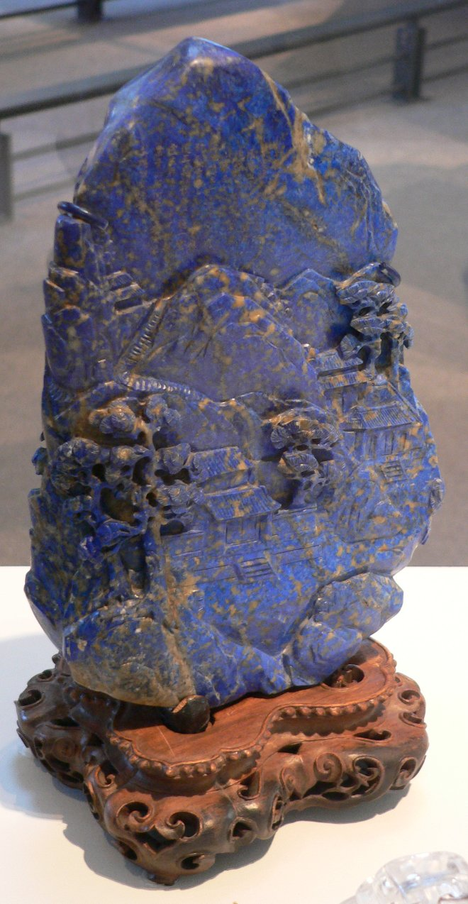 China, Qing Dynasty (1644-1912) Mountain Lapis lazuli Gift of Alice Meyer Buck, 1968